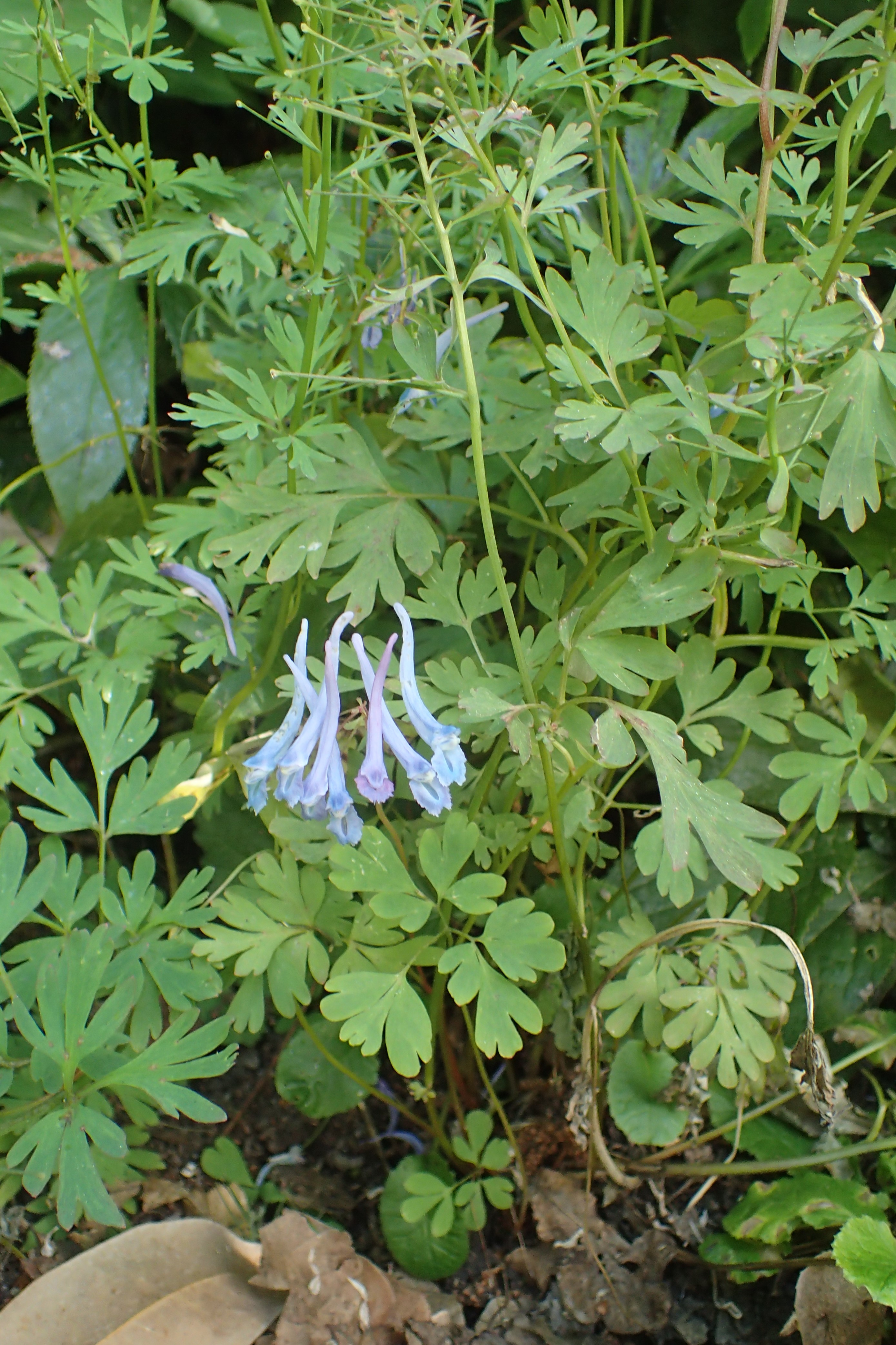 Corydalis flexuosa 'China Blue' in Christchurch Botanic Gardens